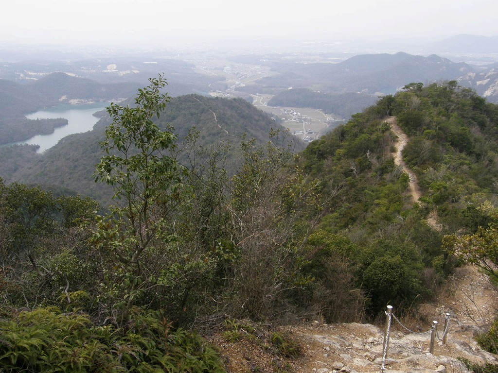 The center part of Kato City from Mt.mikusa to the south is seen.